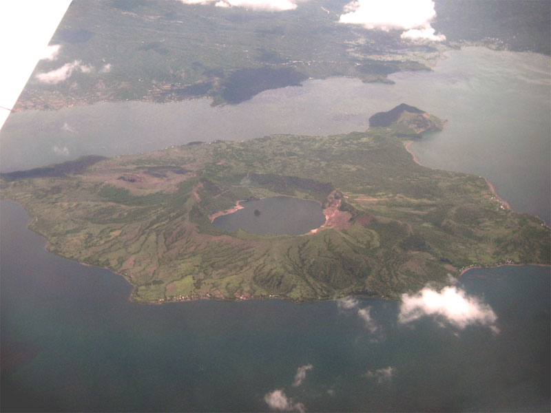 Aerial photo of Taal Volcano, taken on a Cebu Pacific flight from Manila to Dumaguete City